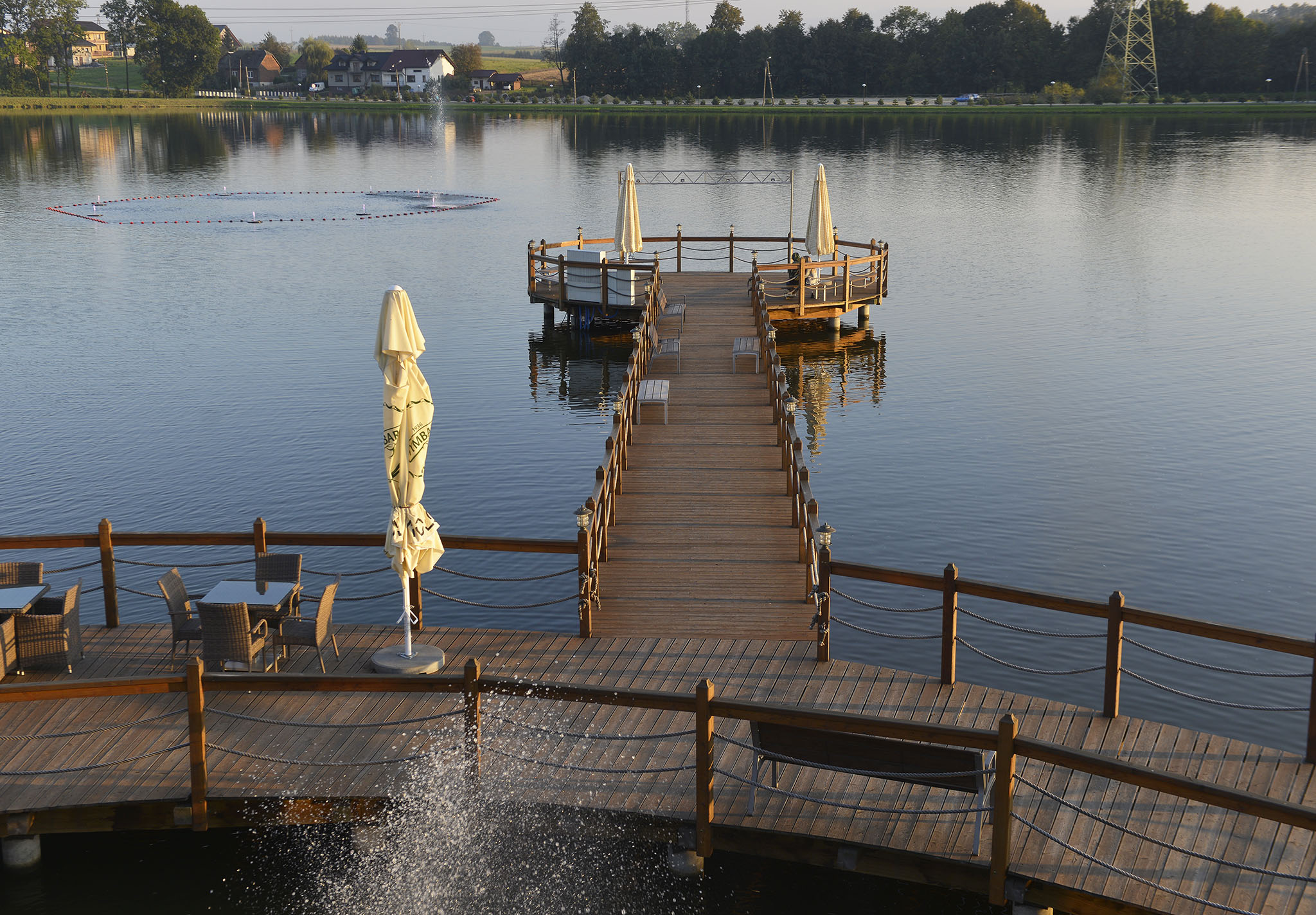 Pier at Osiek near Oswiecim, Poland. Part of Molo Resort